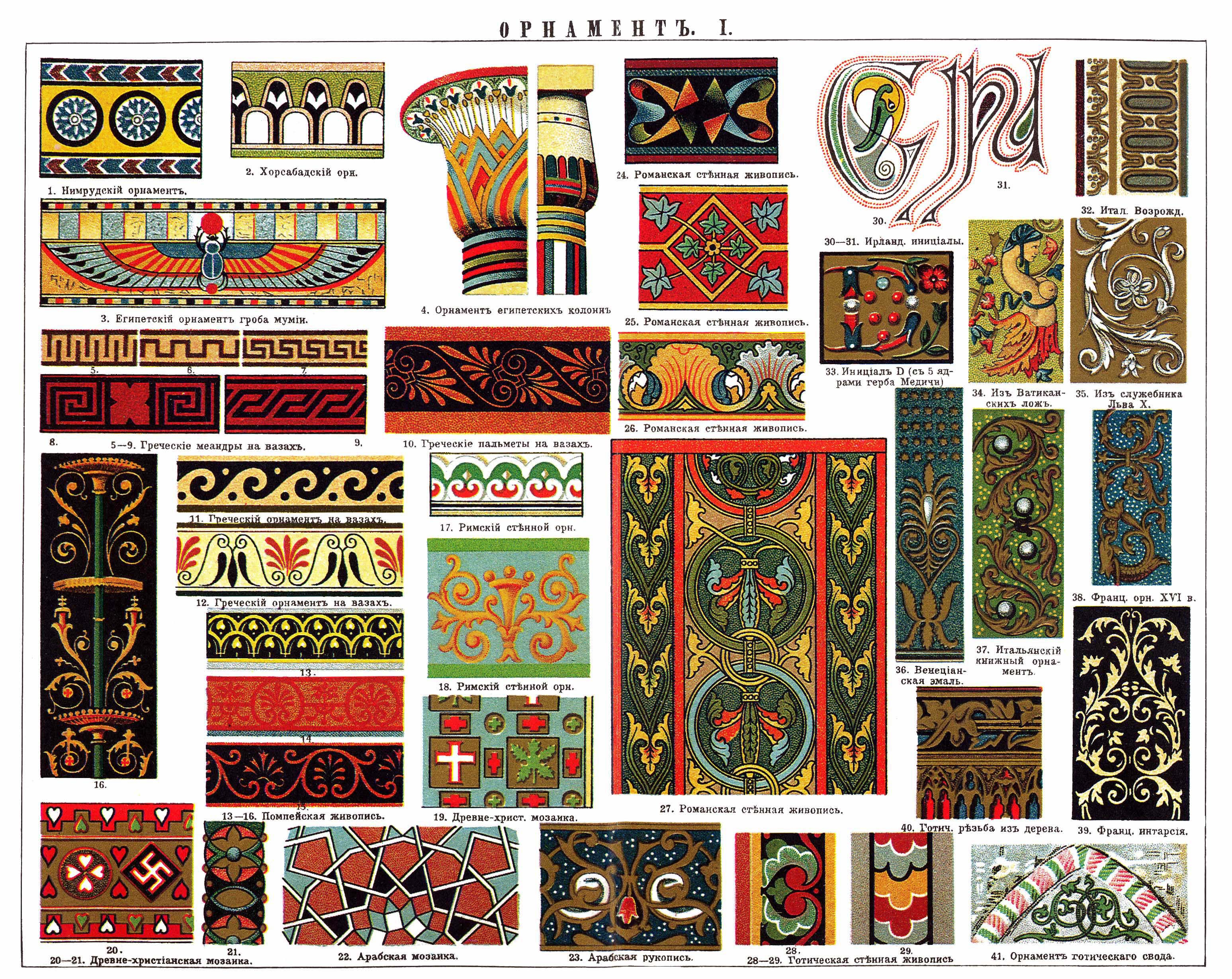 Illustration from Brockhaus and Efron Encyclopedic Dictionary (1890—1907)